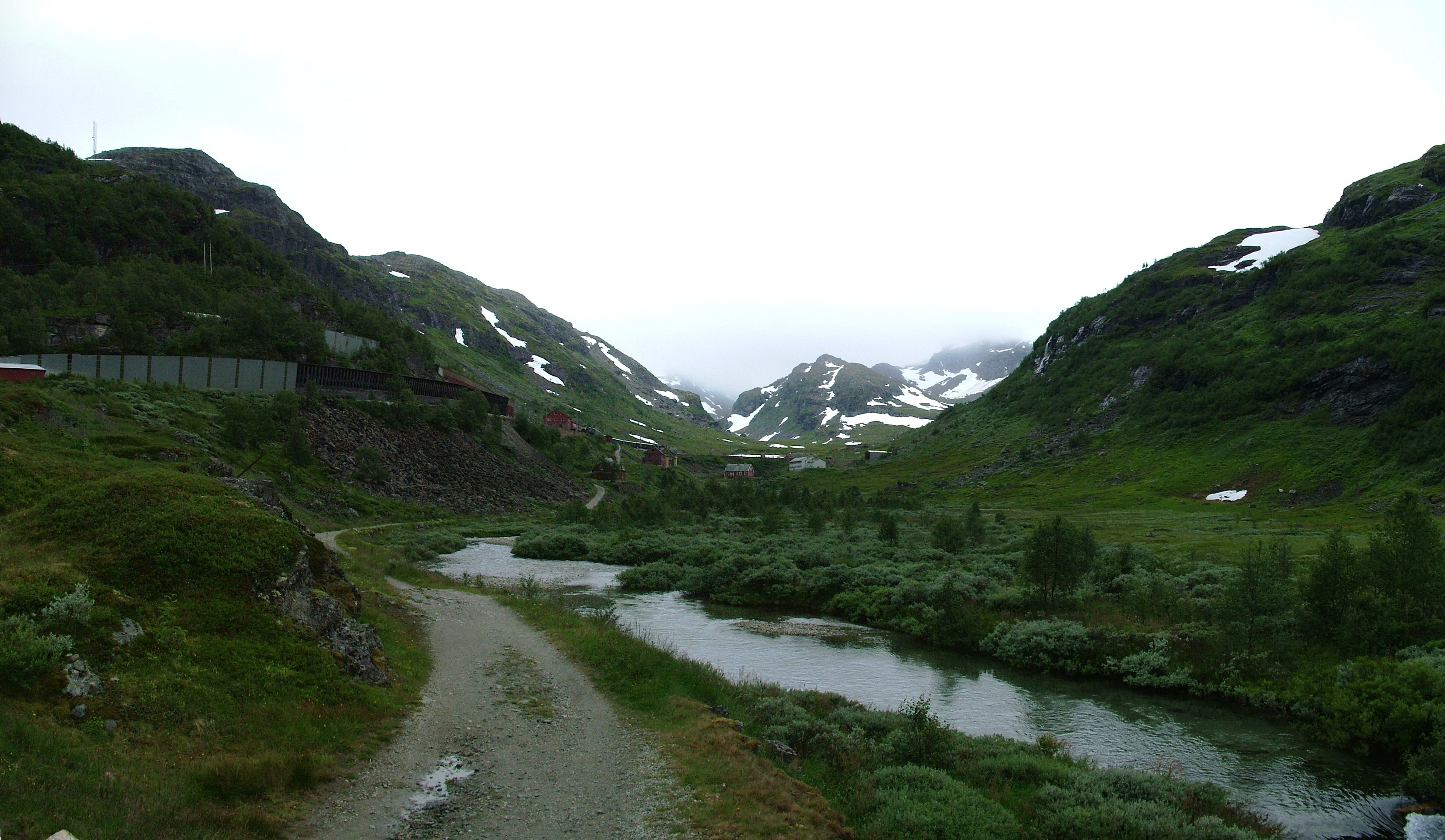 Panoramic view of the environment of Myrdal, with Myrdal station in the background